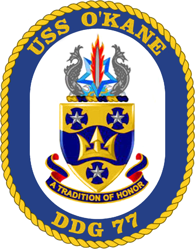 Emblem of the USS O'Kane (DDG-77)